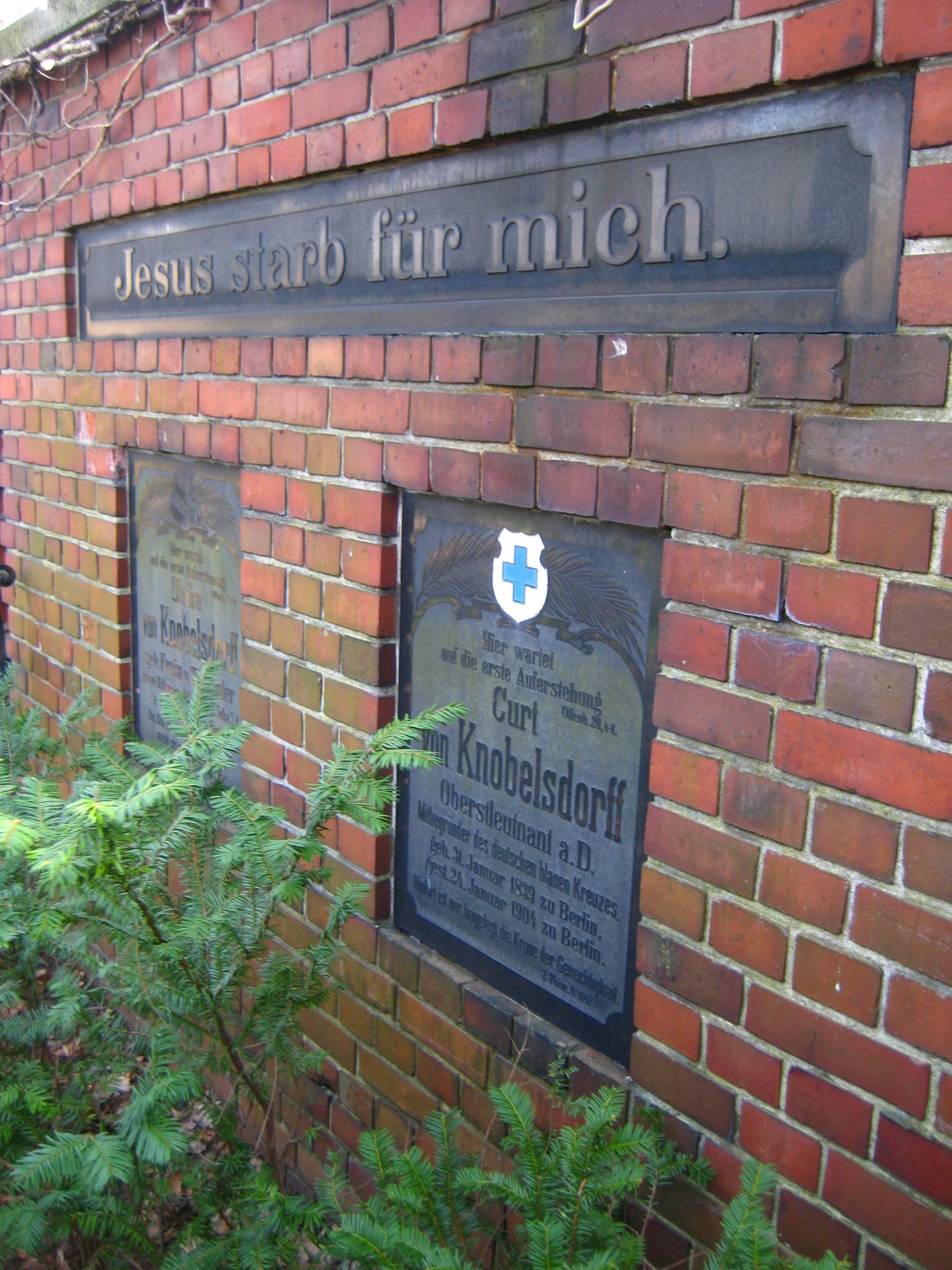 Grave of Curt von Knobelsdorff (1839-1904), a Prussian officer and co-founder of the German Blue Cross, on the Columbiadamm Cemetery in Berlin-Neukölln. From 1990 until 2014, this was a grave of honor of the State of Berlin.